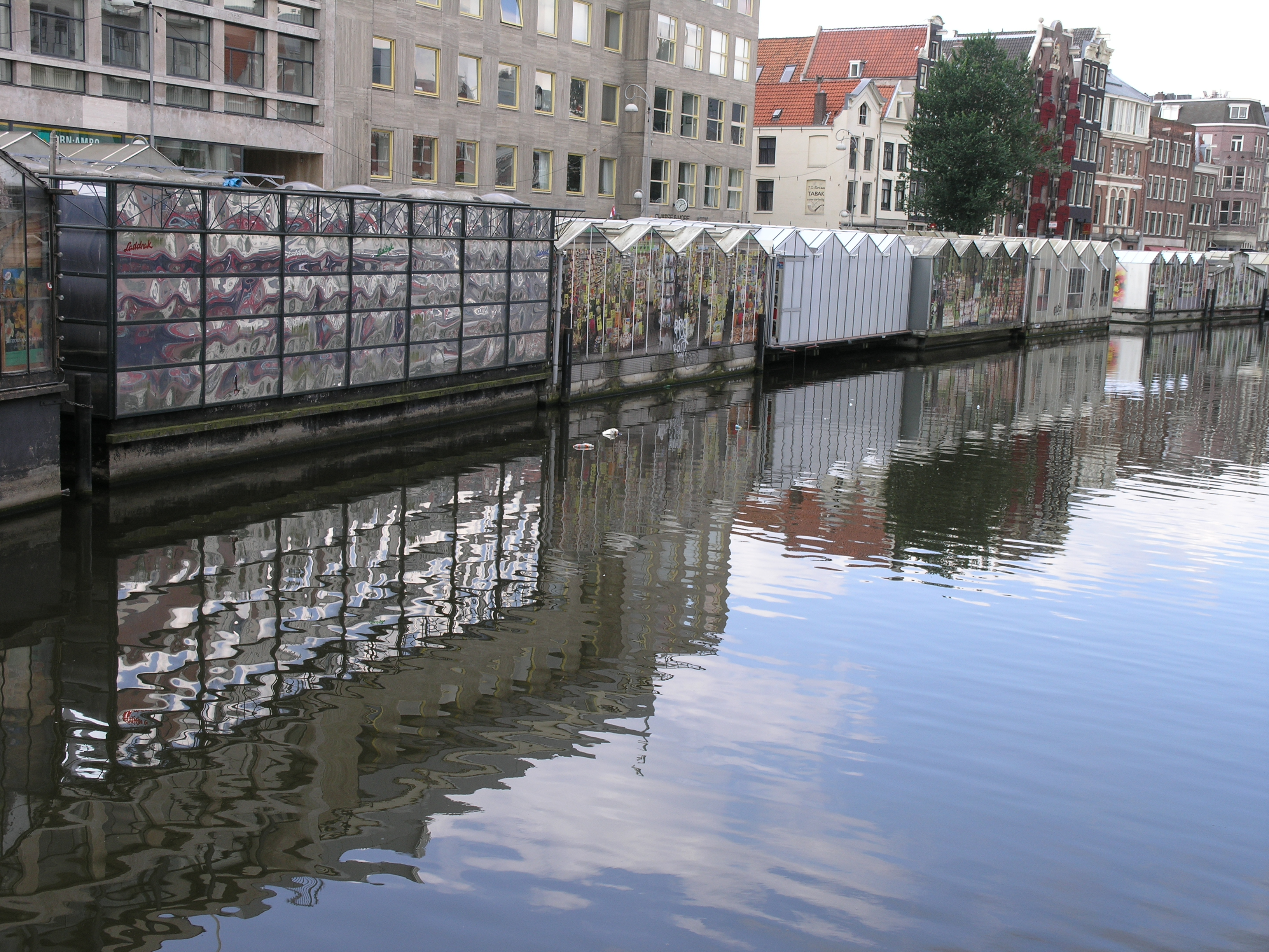 Bloemenmarkt Amsterdam 2014 This is an image of rijksmonument number 518370